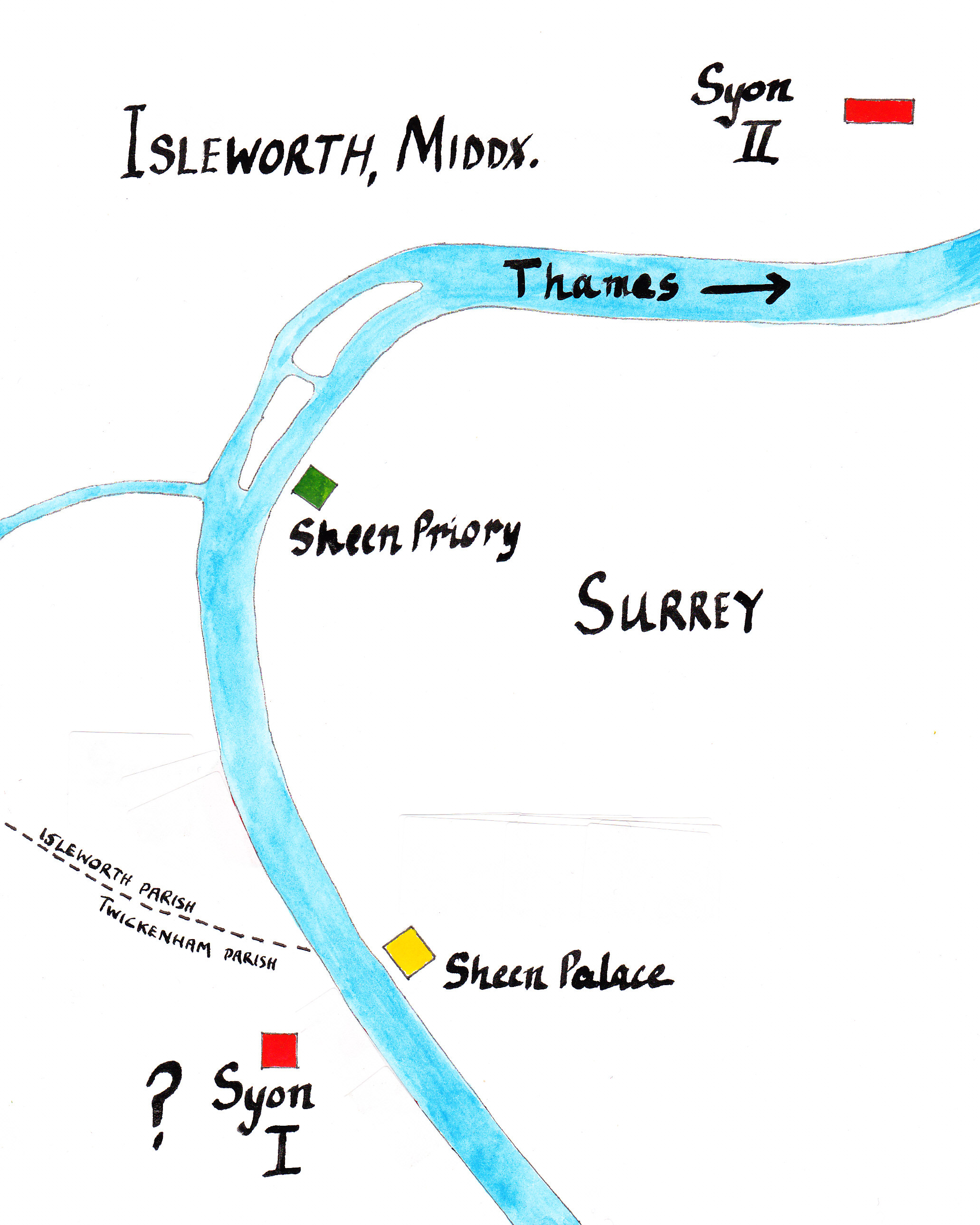 Map of Henry V's "King's Great Work", building projects planned by the King at the start of his reign (1413-1422) to expiate the usurpation of his father Henry IV. The works comprised 3 monasteries centred on a rebuilt palace at Sheen. (Source: Cloake, John. Richmond Palace, London, 2001, pp.6-7)